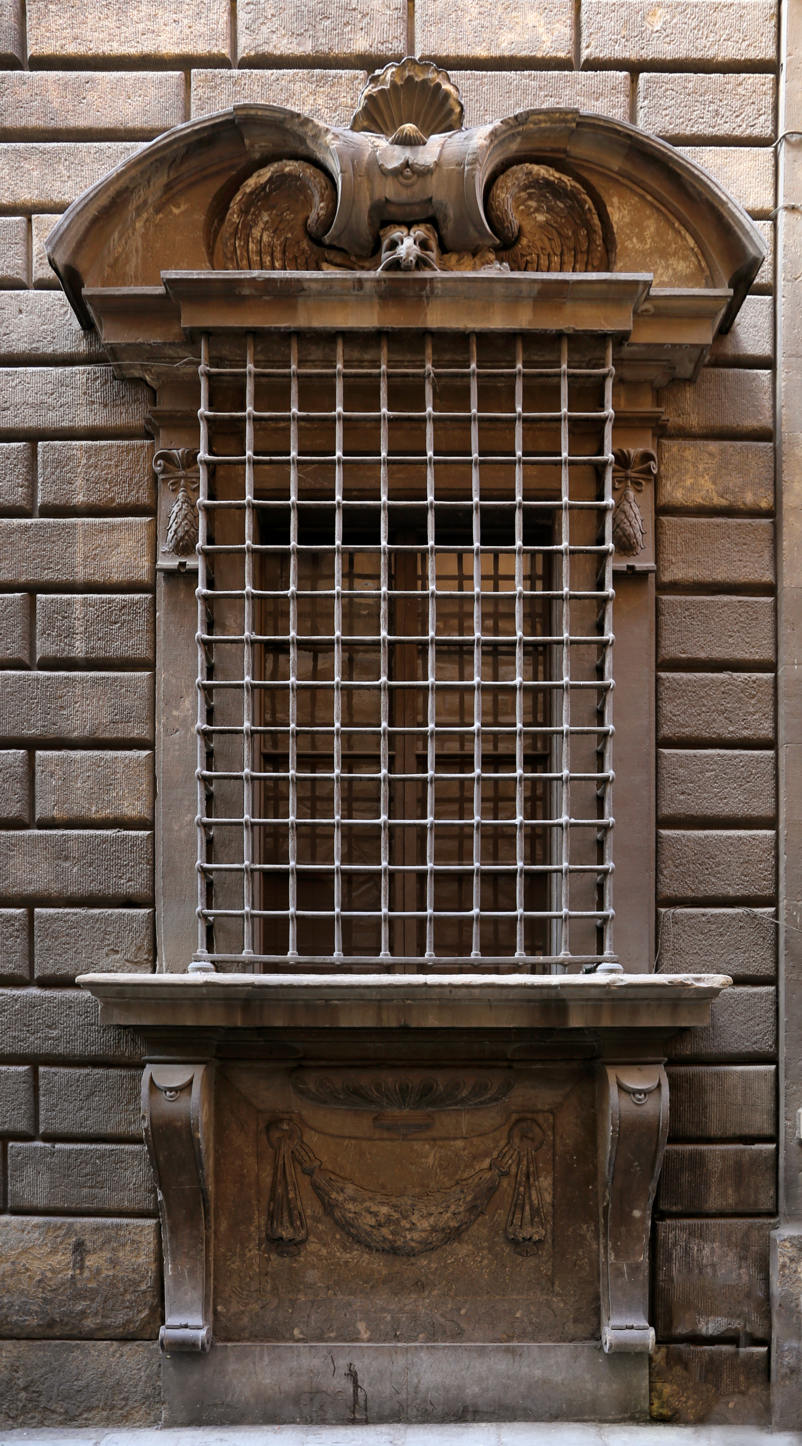 Palazzo Nonfinito